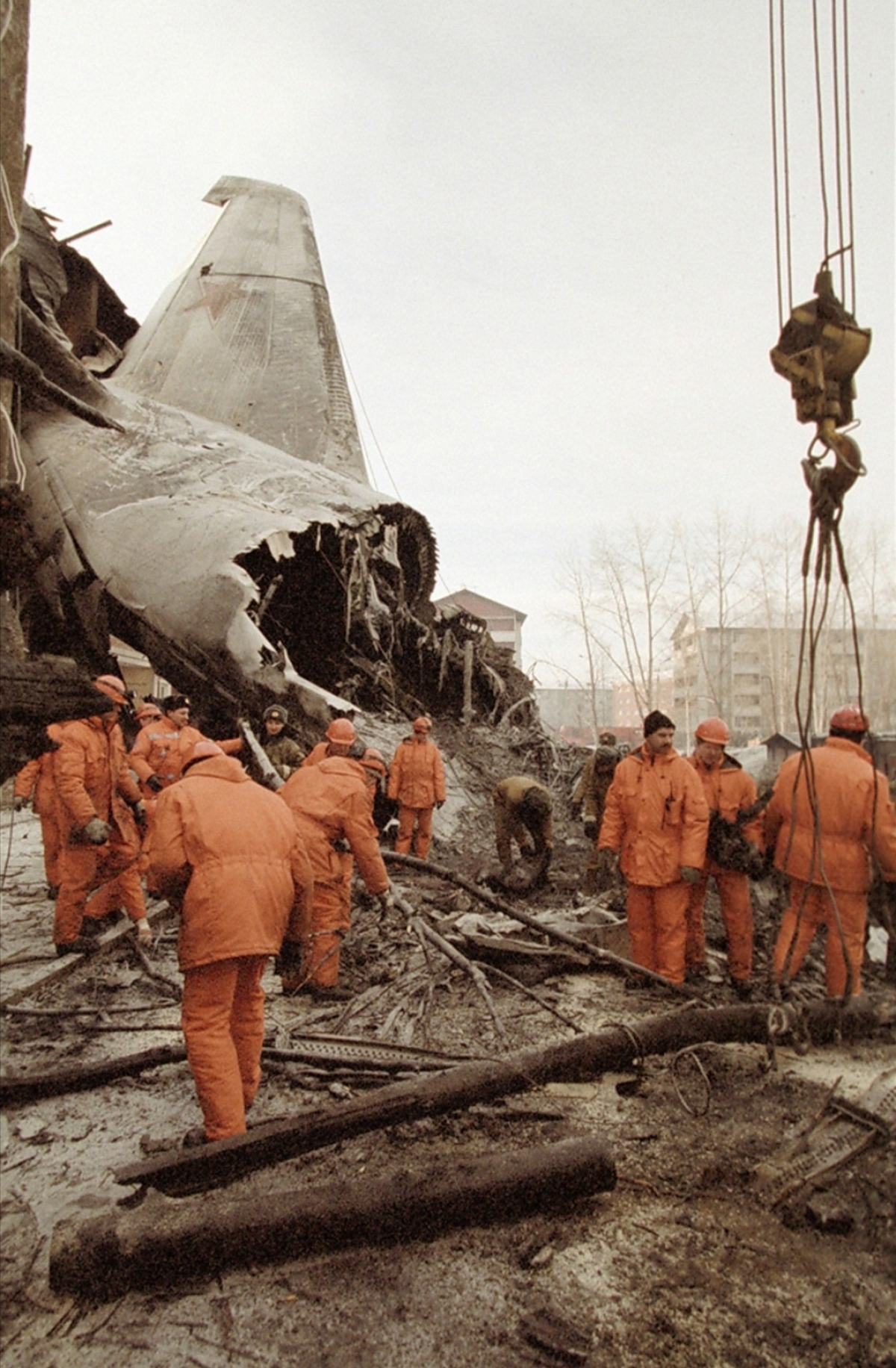 “Rescue operation”. Rescue operation at the location of AN-124 'Ruslan' aircraft disaster.